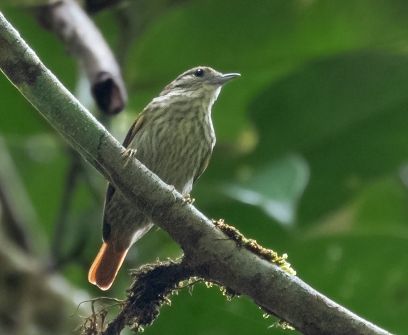 Rufous-tailed Xenops; Manacapuru, Amazonas, Brazil